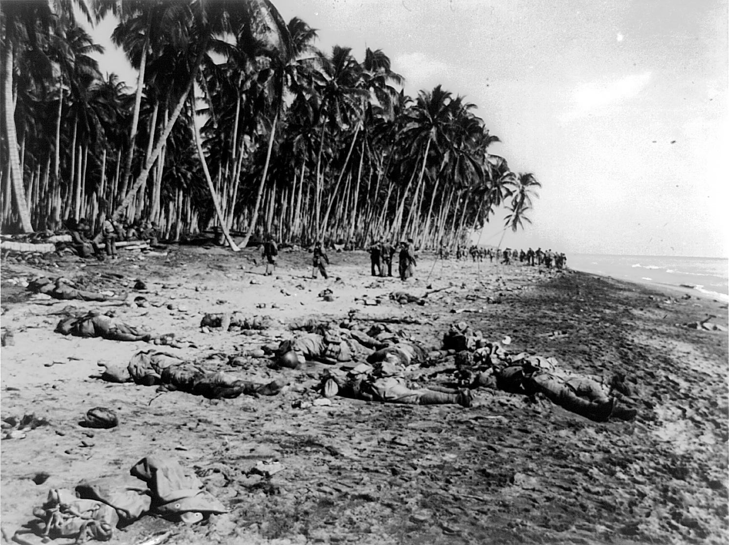 Dead Japanese soldiers strewn over a beach on Guadalcanal, Solomon Islands, while U.S. Marines get the lay of the land and consolidate their positions